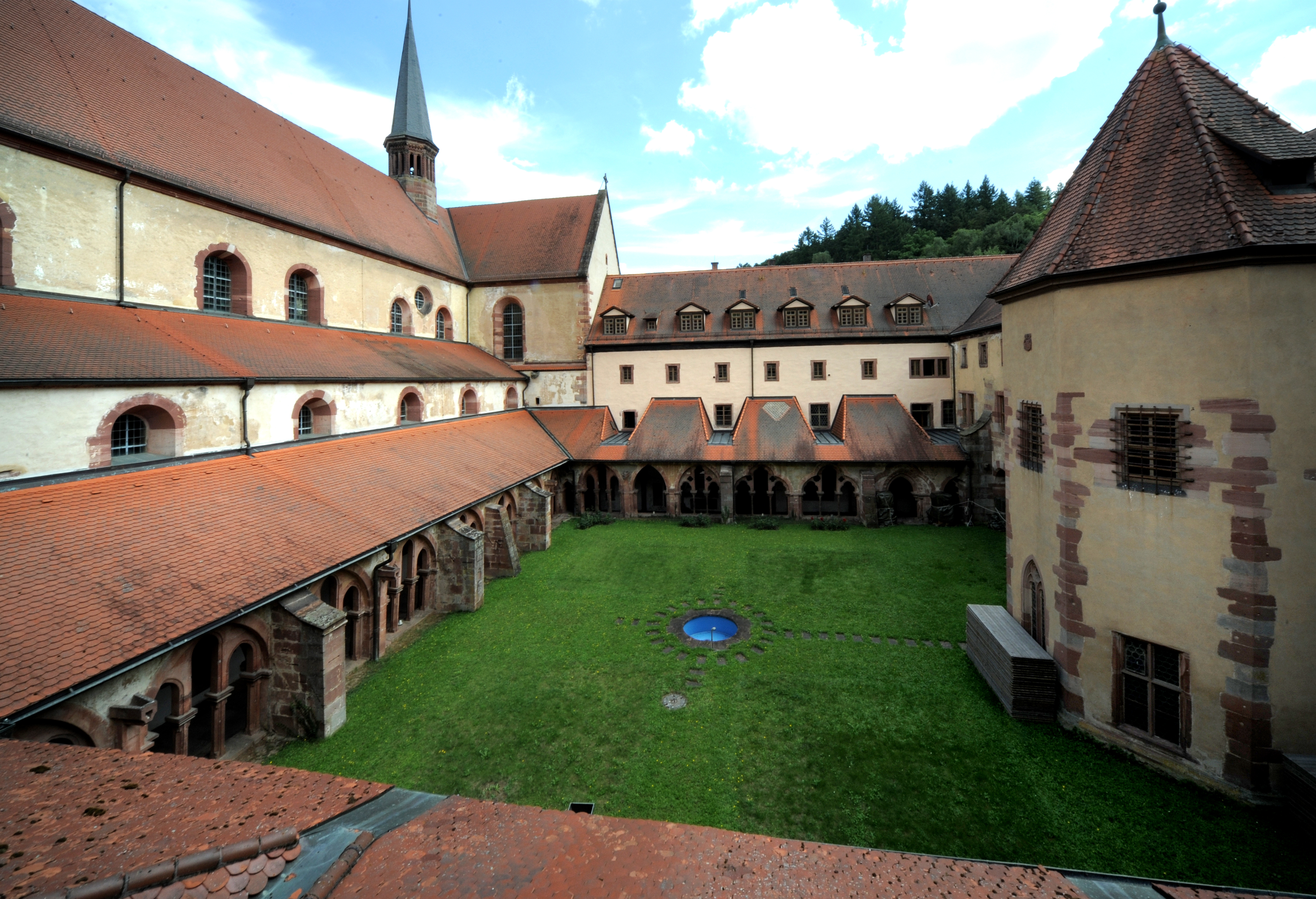 The Cistercian abbey Bronnbach.